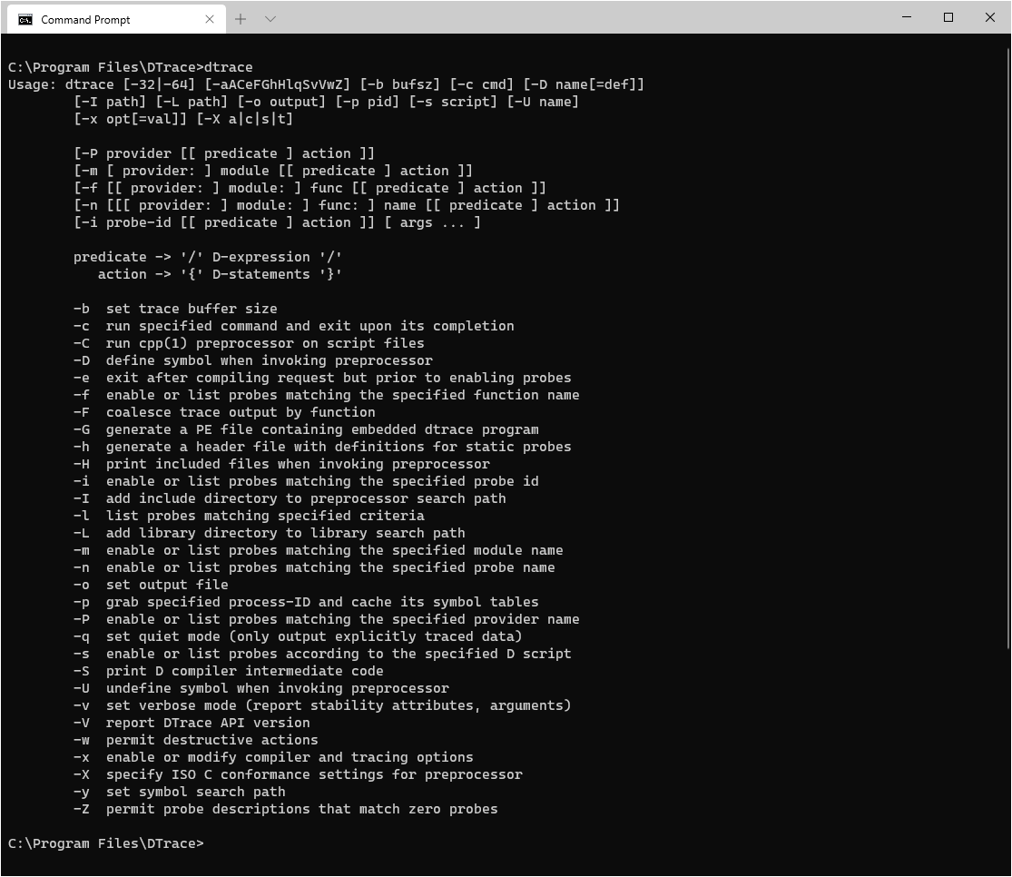 DTrace on Windows v10.0.19041.1